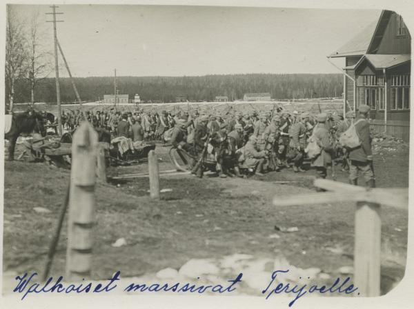 1918 Civil War of Finland. White troops marching to Terijoki.